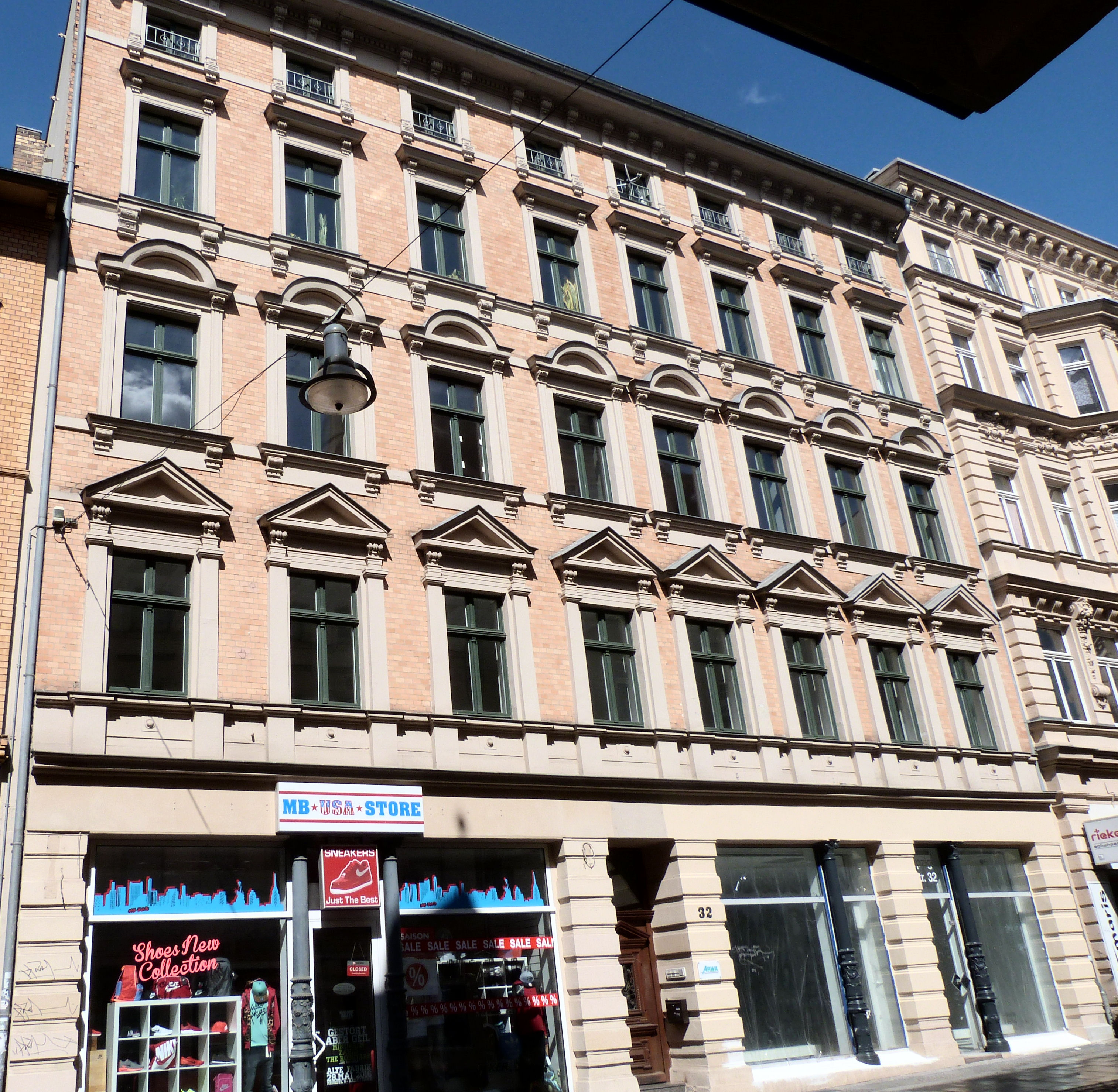 House No. 32, Leipziger Strasse in Halle (Saale)